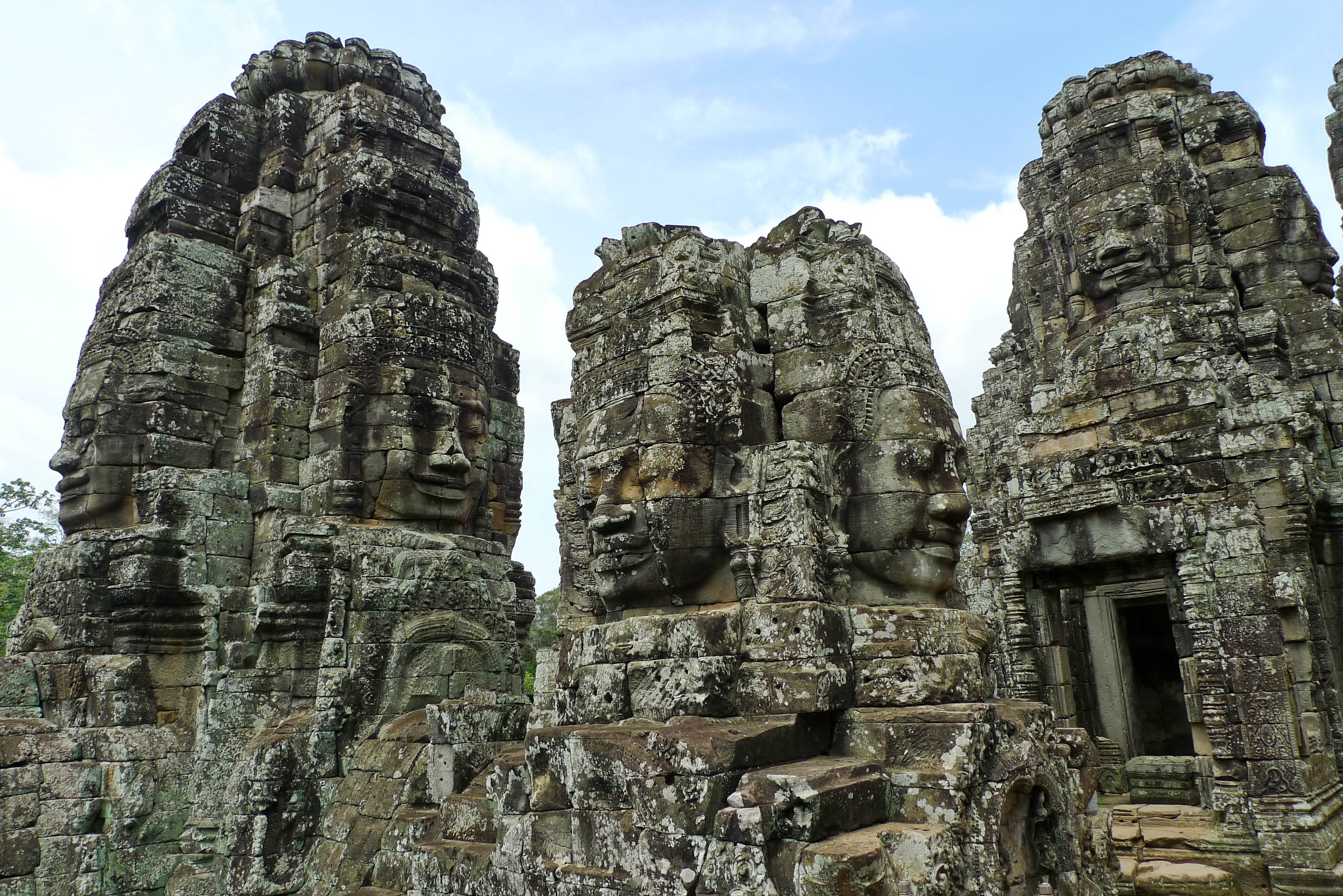 A temple called Bayonne, Angkor Thom, the Angkor complex, Siem Reap, Cambodia